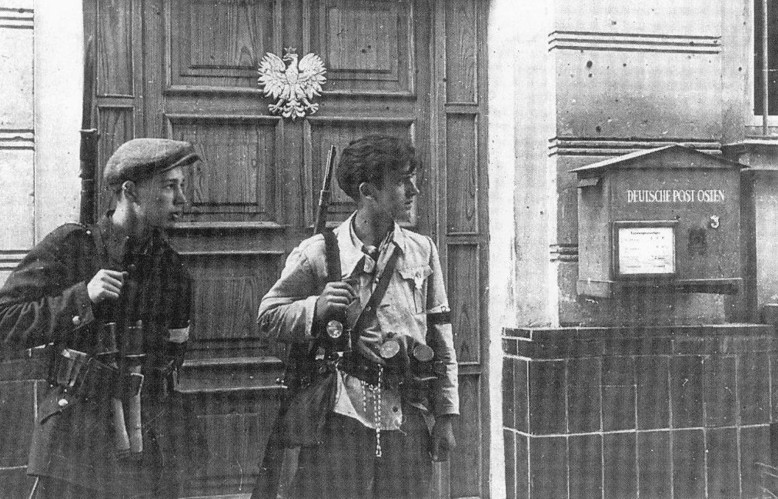 Soldiers of Polish underground Armia Krajowa during Operation Tempest in Lublin, July 1944